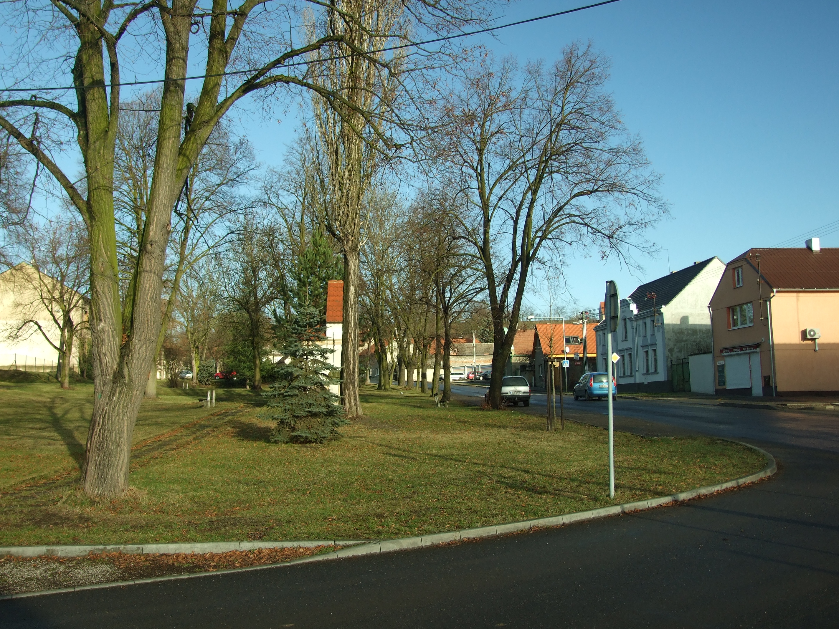 Town of Kačice near Stochov, Central Bohemian Region, CZ help